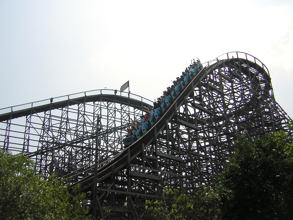 Hurler roller coaster at Paramount's Kings Dominion.